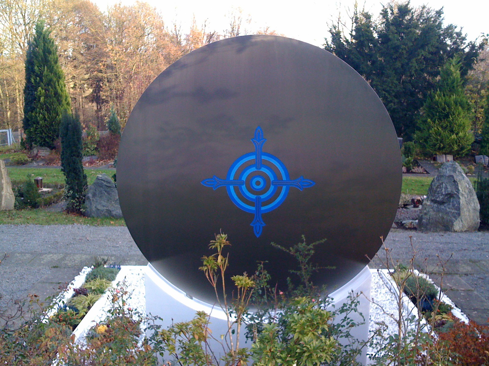 Karlheinz Stockhausen's Grave monument (back)